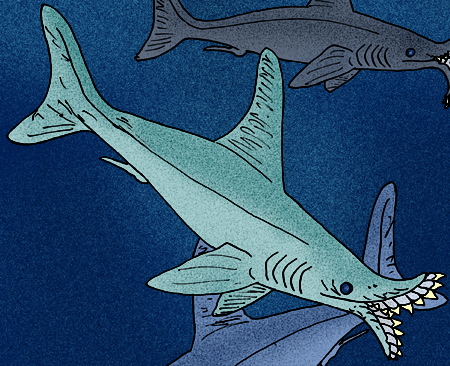 Possible reconstruction of the Carboniferous shark-like fish, Edestus giganteus. (C) Stanton F. Fink